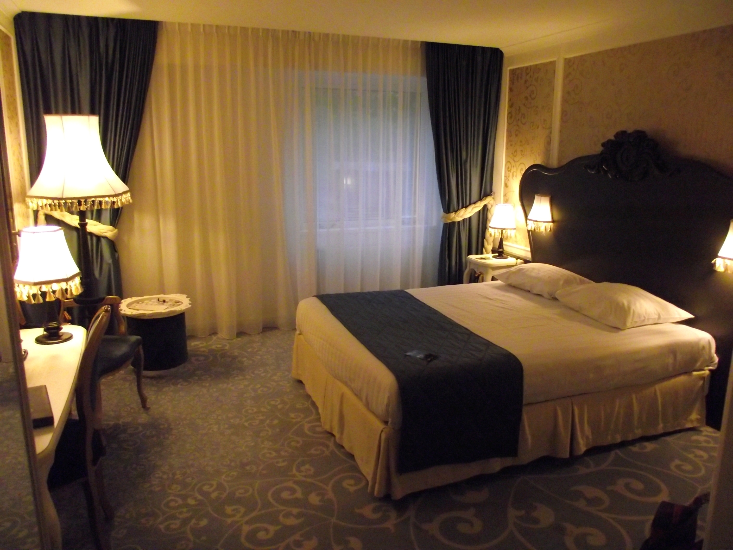 Efteling Hotel's room